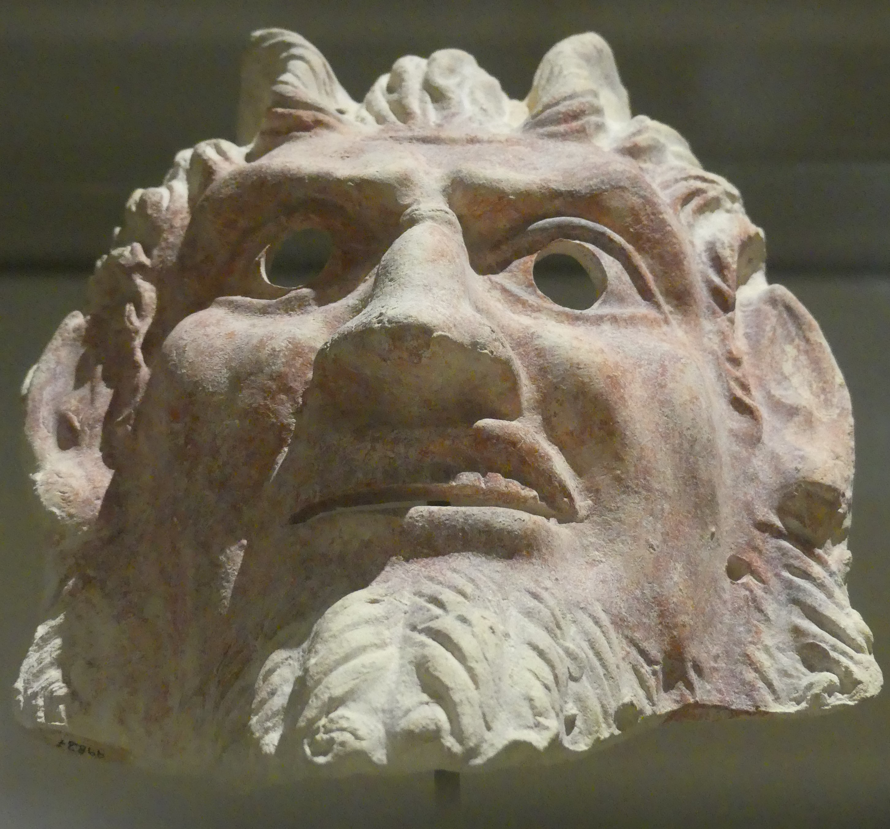 "Mask of a Satyr (legendary creature) painted in red Terracotta Burj el-Chemali (Tyre area) Roman Period (64 B.C.-395 A.D.)" on display in the basement of the National Museum of Beirut, Lebanon